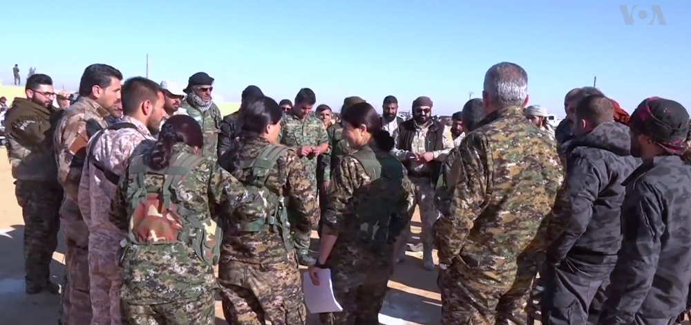 Leading commanders of the Syrian Democratic Forces meet during the Raqqa campaign. Among those present are Rojda Felat (YPJ), Cihan Sheikh Ahmed (YPJ), Bandar al-Humaydi (Al-Sanadid Forces), Kino Gabriel (Syriac Military Council), Abu Wael (Liwa Ahrar Raqqa), and others.